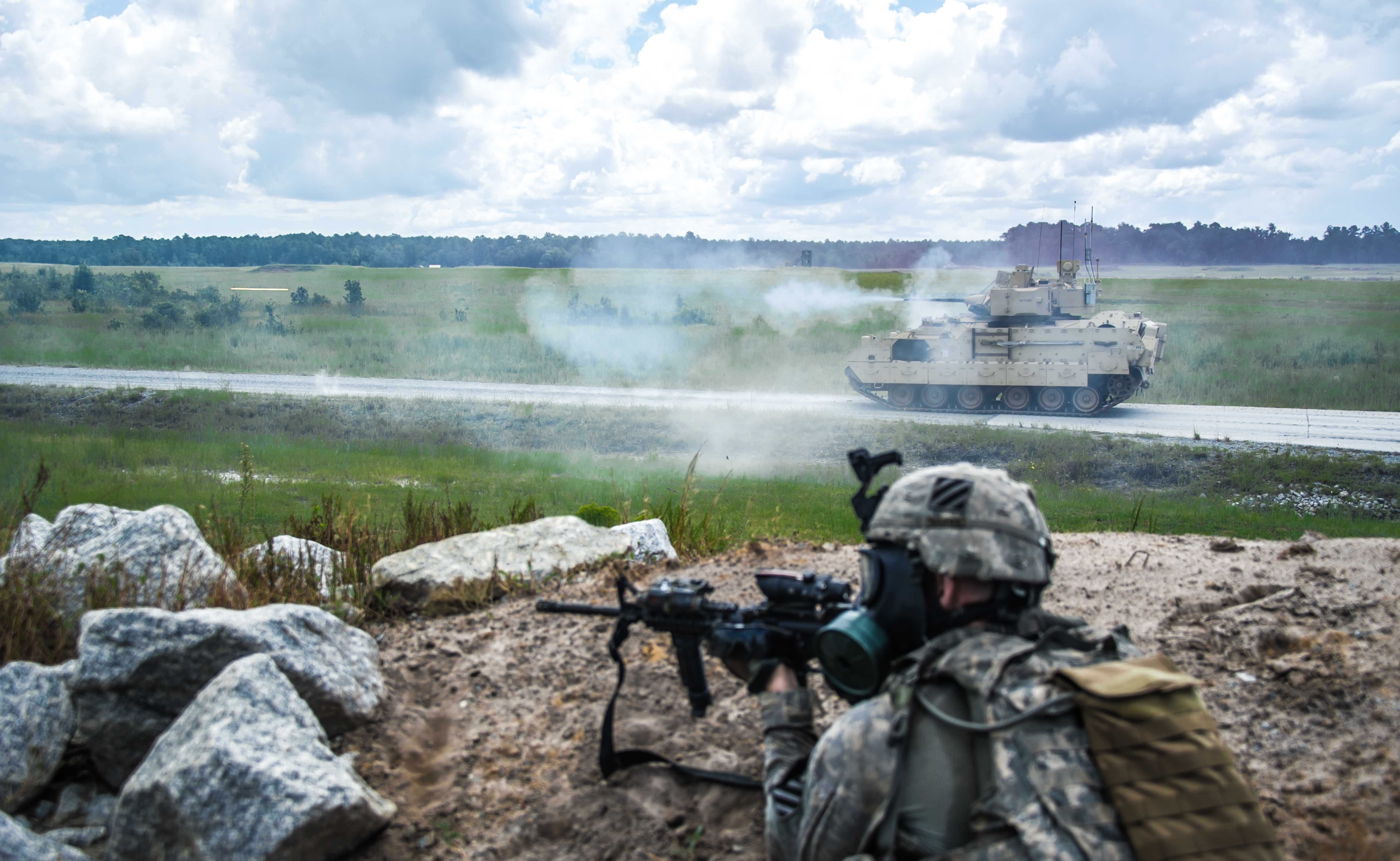 An M2A3 Bradley Fighting Vehicle of the 1st Battalion, 64th Armor Regiment “Desert Rogues,” 2nd Armored Brigade Combat Team, 3rd Infantry Division, fires while a dismounted Soldier scans the horizon in a simulated chemical hazard during the Rogues’ Bradley Fighting Vehicle Gunnery Table XII, held here at the Digital Multi-Purpose Range Complex, Sept. 4. The GTXII is one of the pinnacle training events for a combined arms battalion, incorporating direct and indirect fires, and mounted and dismounted live fire scenarios at the platoon level. (U.S. Army Photo by Staff Sgt. Richard Wrigley 2nd ABCT, 3rd ID, Public Affairs NCO)